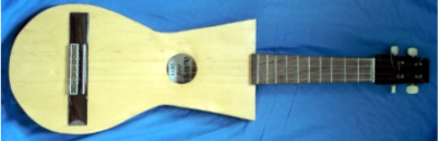 Isfl cuatro antiguo